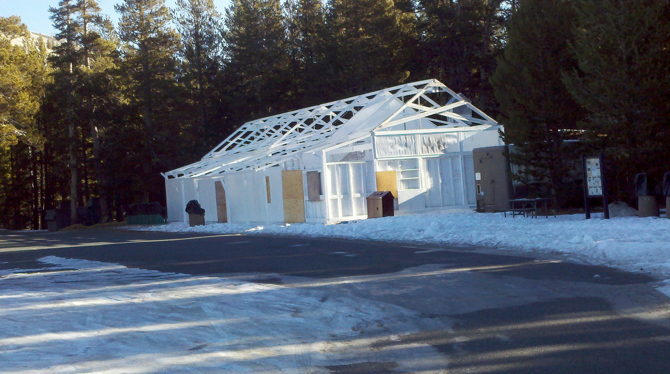 The closed store at Tuolumne Meadows in Yosemite National Park in winter. The canvas roof has been removed.